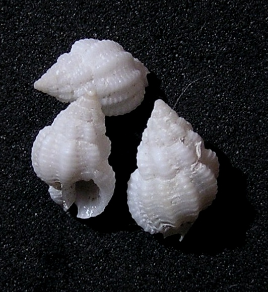 Phrontis antillara (d'Orbigny, 1847) (synonym: Nassarius antillarum (d’Orbigny, 1847) ); family Nassariidae; Cuba